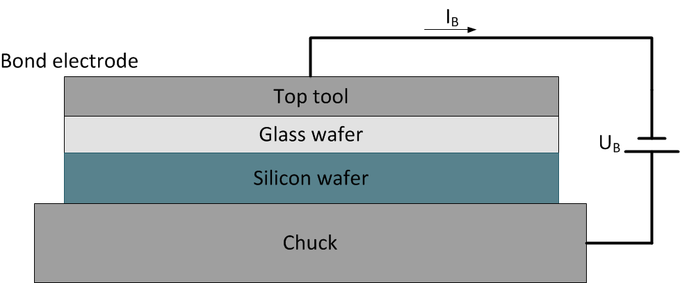 Scheme of anodic bonding procedure. The top tool works as a cathode and the chunk as anode. The process parameter are bond voltage UB, current limitation IB and bond temperature TB.